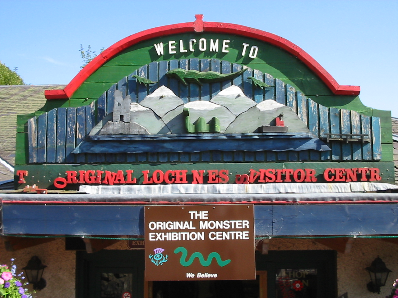 The UnOriginal Loch Ness Visitor Center Best avoided , owner is a thief and a fraudster(Loch Ness)